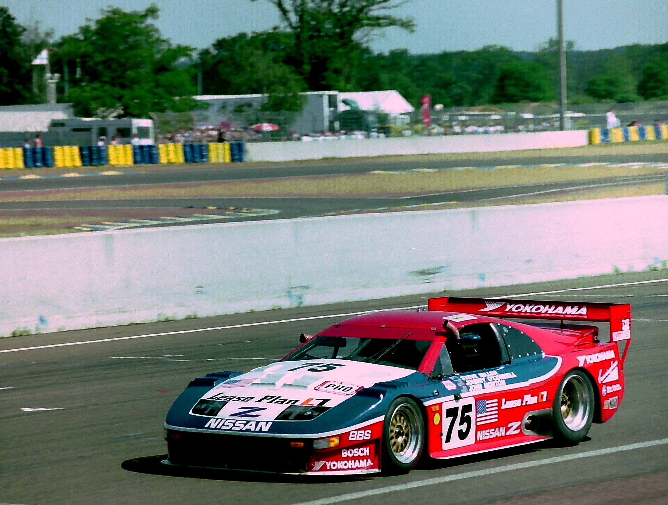 Nissan 300ZX Turbo - Steve Millen, Johnny O`Connell & John Morton heads onto the pit straight at the 1994 Le Mans